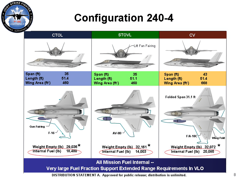 Configuration of the three original F-35 variants